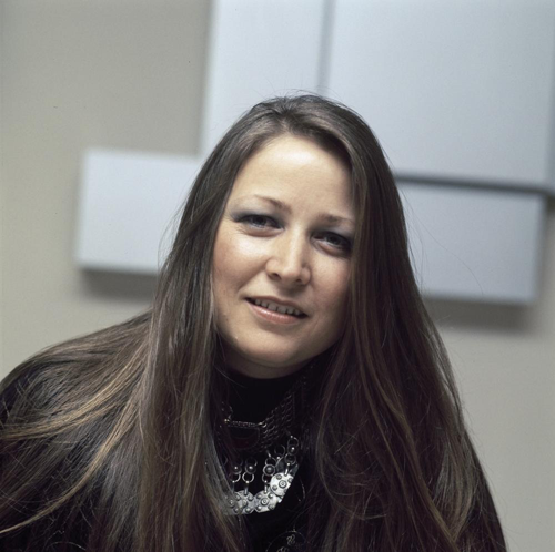 Portrait of Mariza Koch at the day of the Eurovision Song Contest 1976